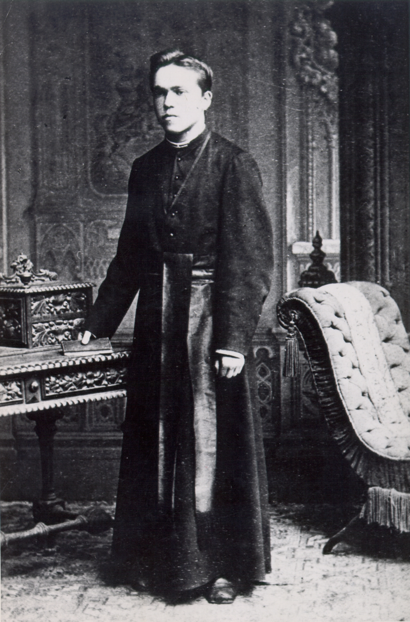 Anton Aškerc (1856-1912), slovene poet.